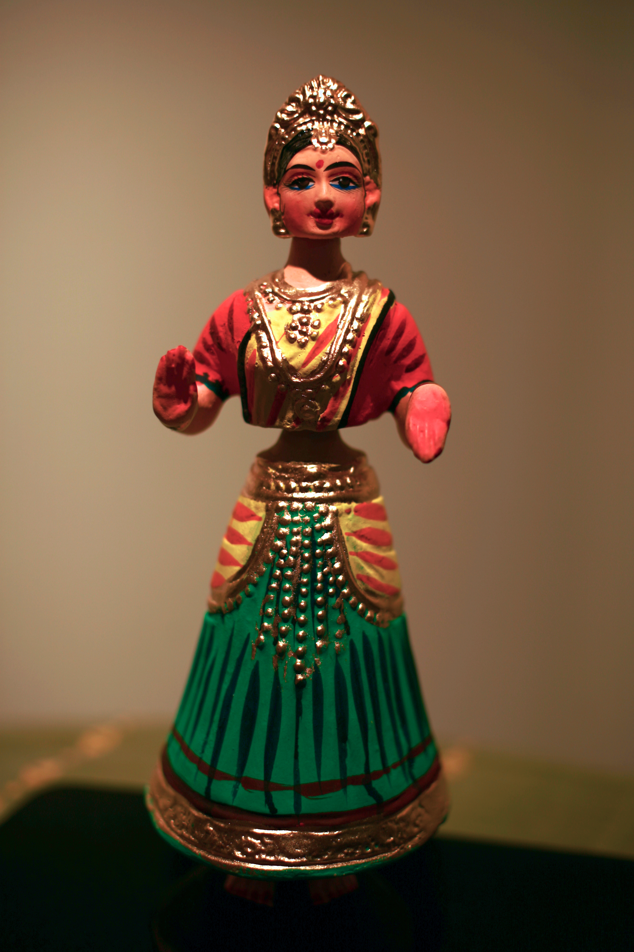 A typical tanjore doll made of terracotta and hand painted.